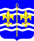 306th Regiment (Training), USAR